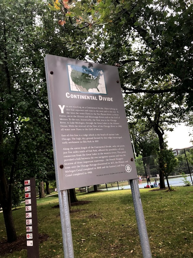 A marker demarking the continental divide that runs through Scoville Park